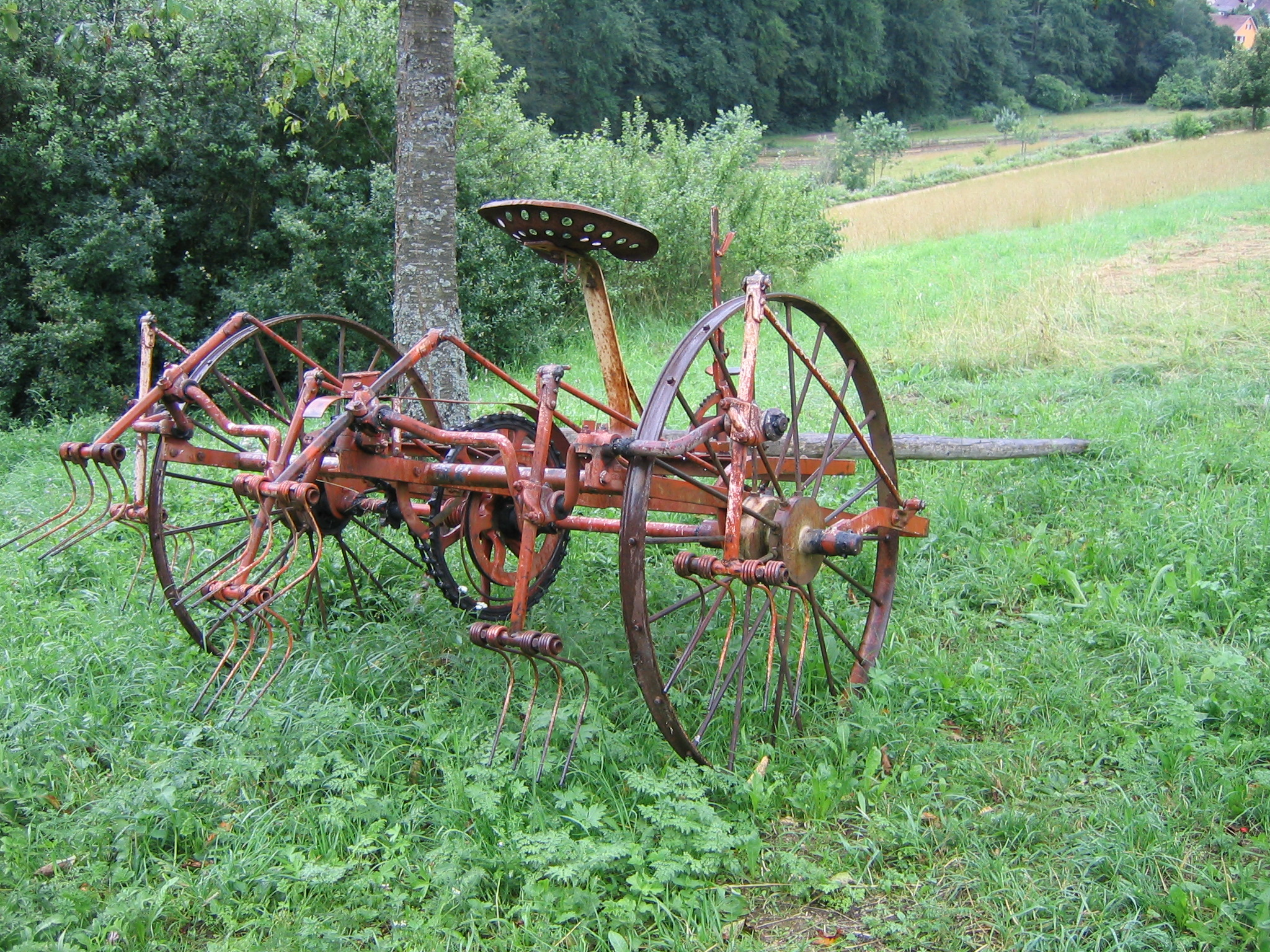 Horse-powered fork hay turner at the Freilichtmuseum Neuhausen ob Eck